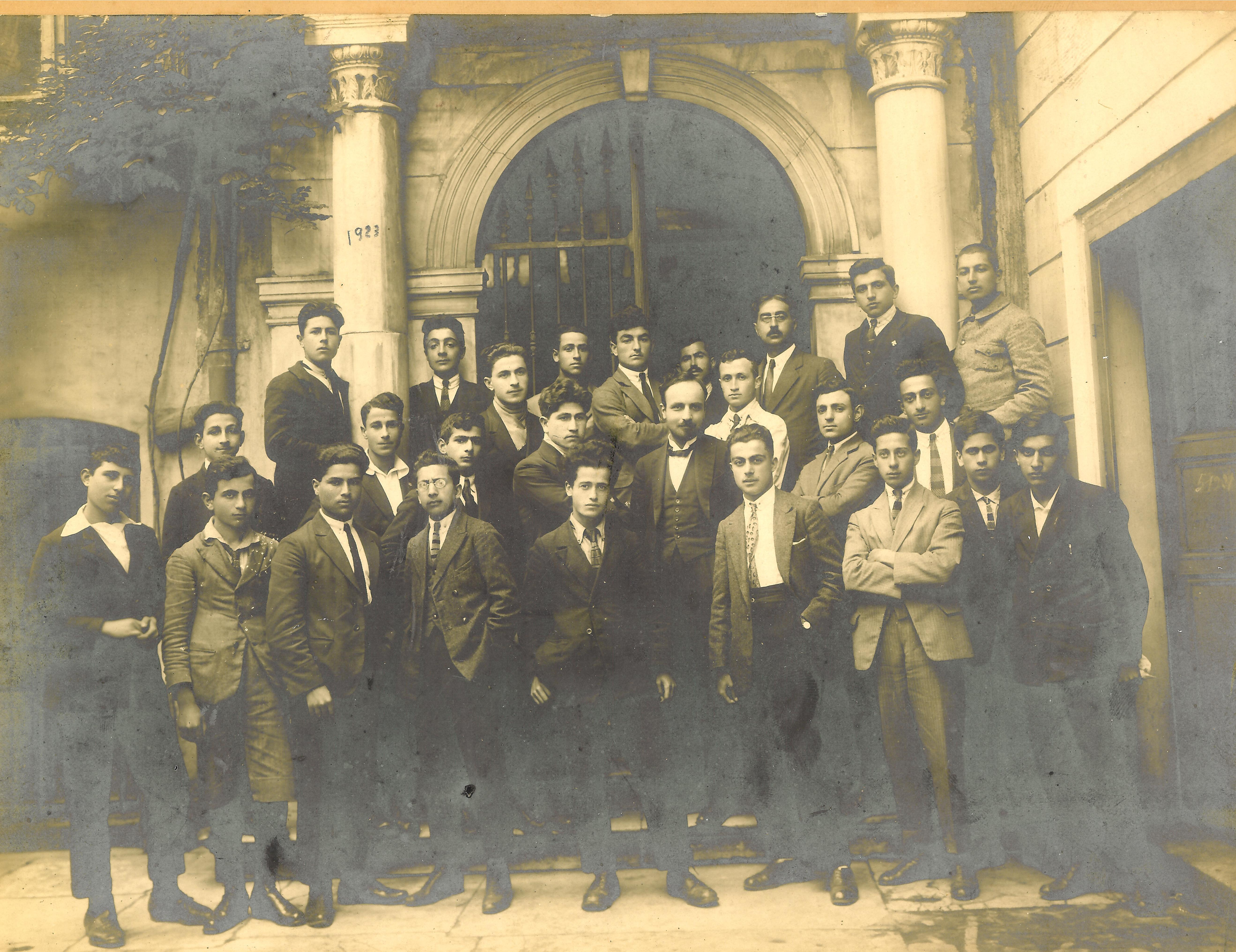 Class of 1923 in the Getronagan Azkayin Varjaran (Armenian School) Constantinople - Picture taken in 1921